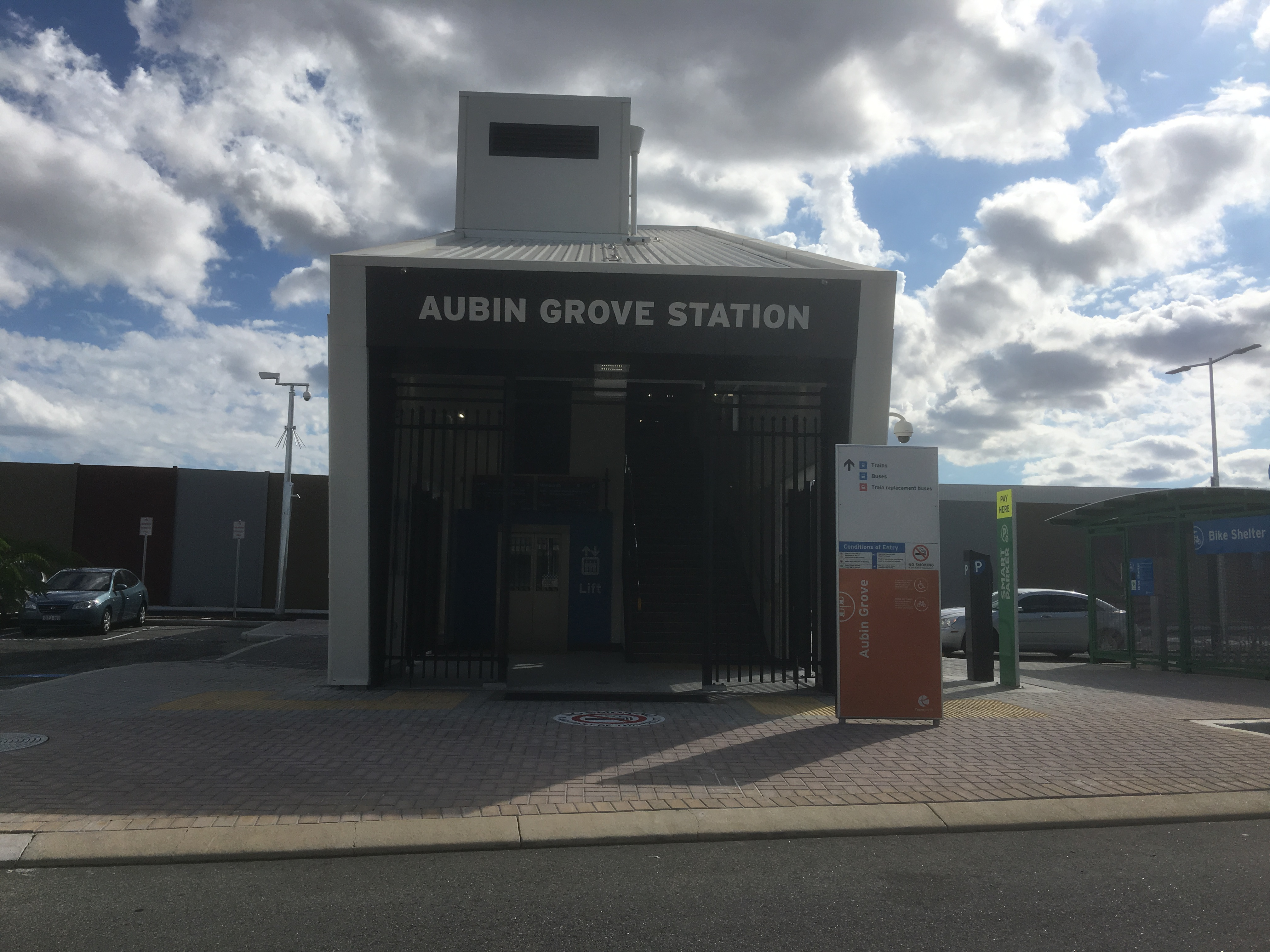 The entrance of Cockburn Central Station, from Flourish Loop's end.